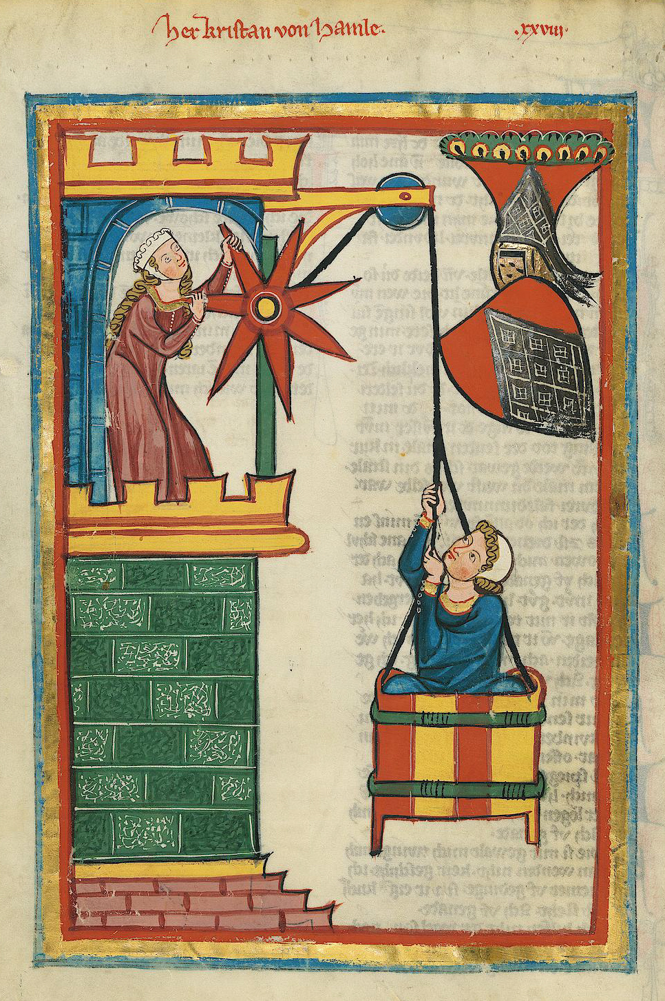 Codex Manesse, 71v, Kristan of Hamle (medieval Lovers, pulled in a basket)